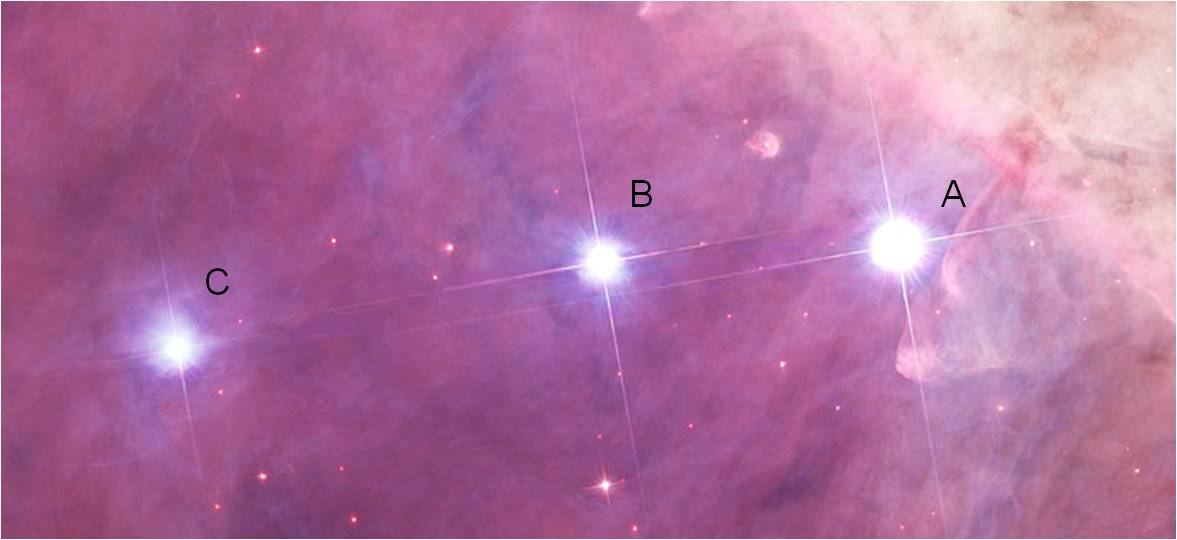 The Theta2 Orionis variable stars located in the Orion Nebula. The original image of the nebula was taken by the Hubble Space Telescope.